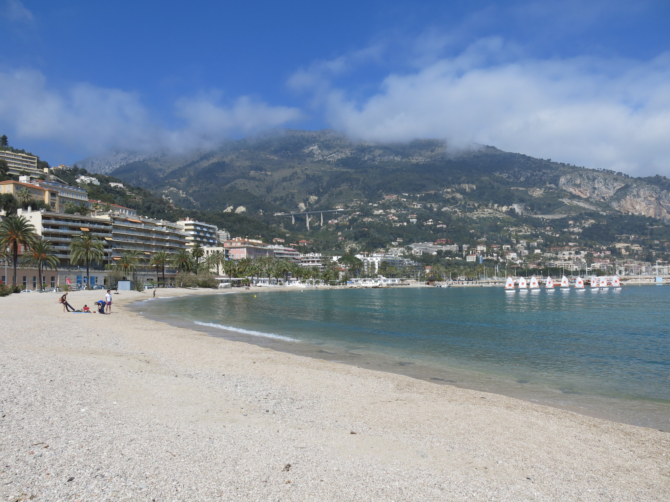 The Sablette beach in Menton (Alpes-Maritimes, France).